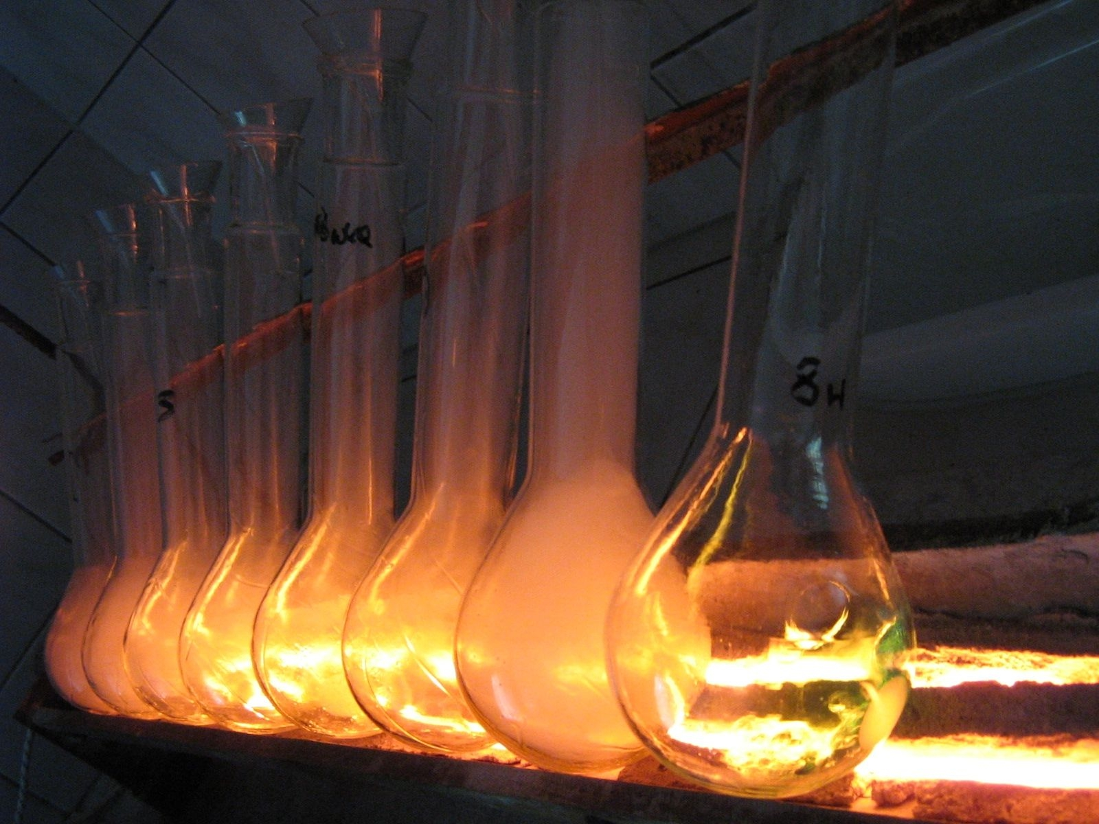 Kjeldahl nitrogen mineralisation with H2SO4.